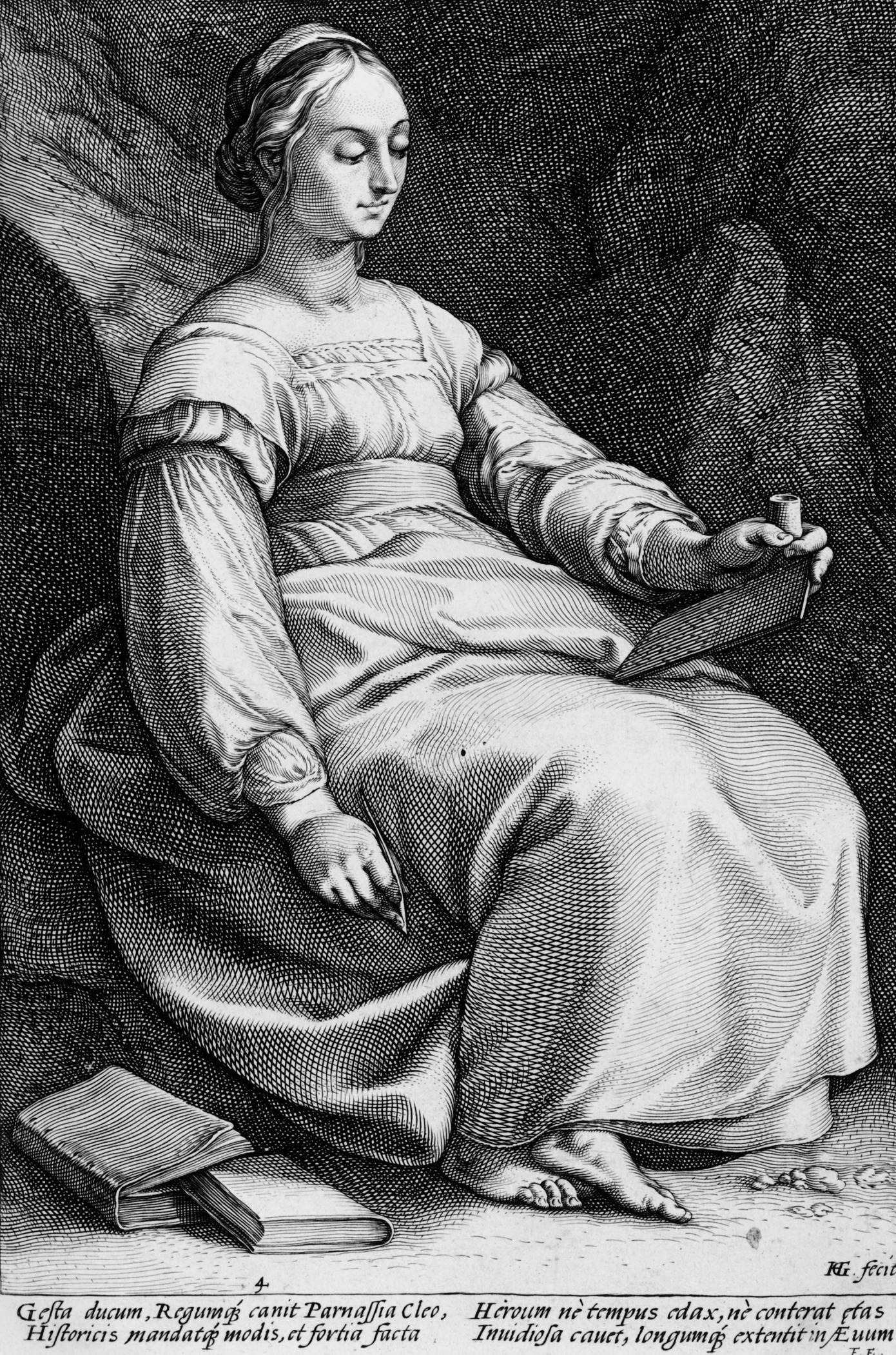 Holland, 1592 Series: The Nine Muses, pl. 4 Prints; engravings Engraving Mary Stansbury Ruiz Bequest (M.88.91.271d) Prints and Drawings